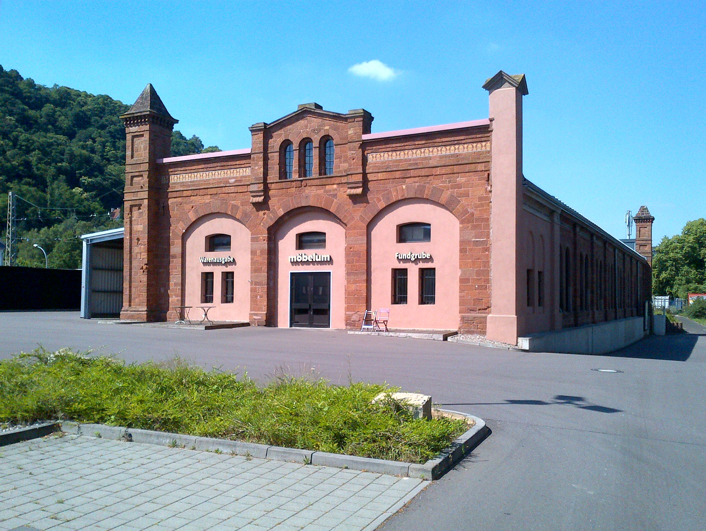 A former train engine shop in Trier-West, built circa 1870.